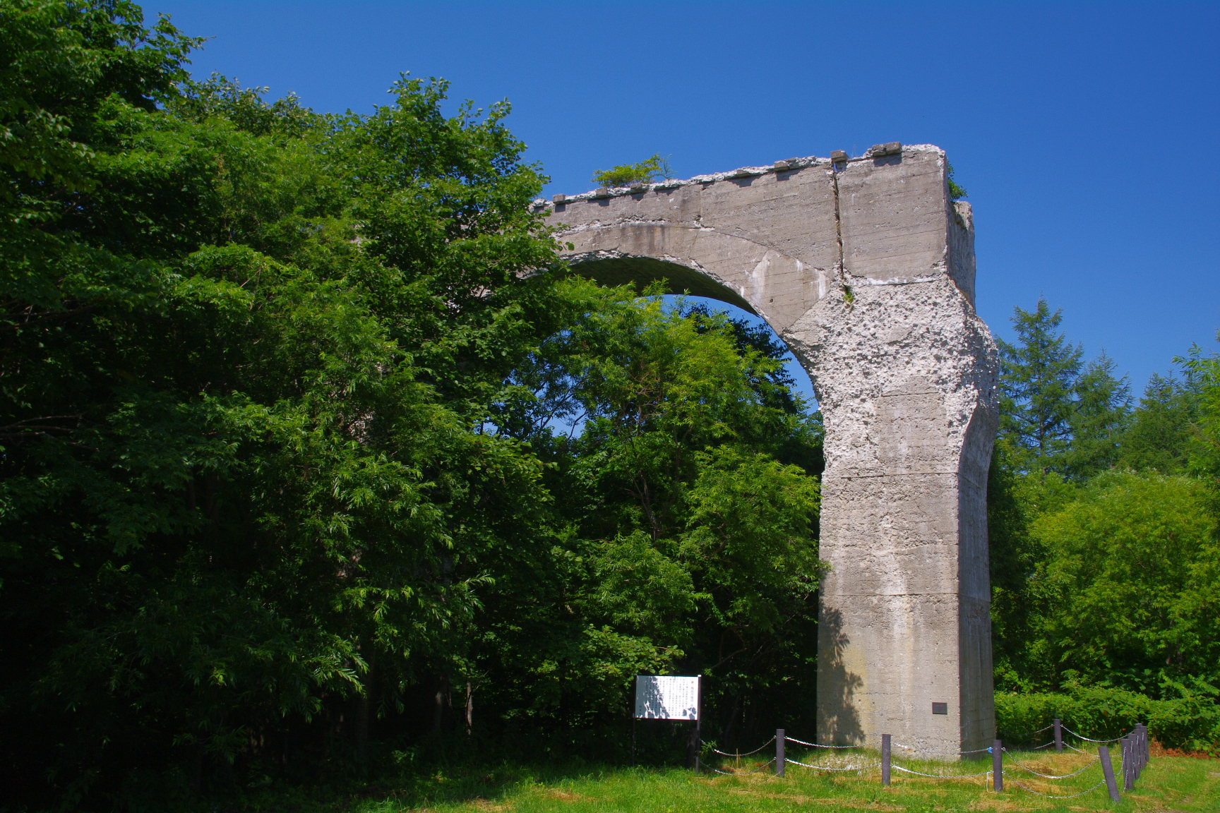 Koshikawa bridge in Shari town, Hokkaido.